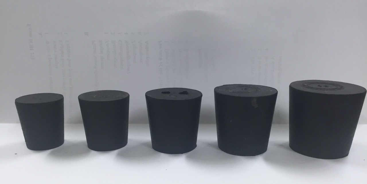 (From left to right). Rubber bungs arranged in the size of 12, 13, 14, 15, and 16, respectively.